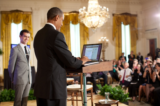 Jack Dorsey and Barack Obama at Twitter Town Hall in July 2011